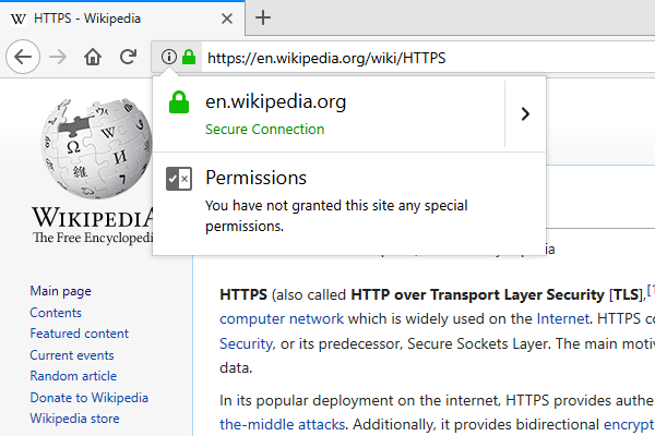 Website SSL identity info box in Firefox v27.0.1